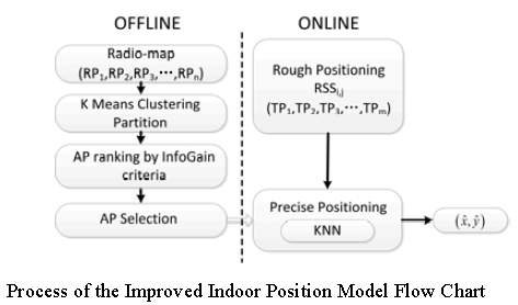 Improved Indoor Position